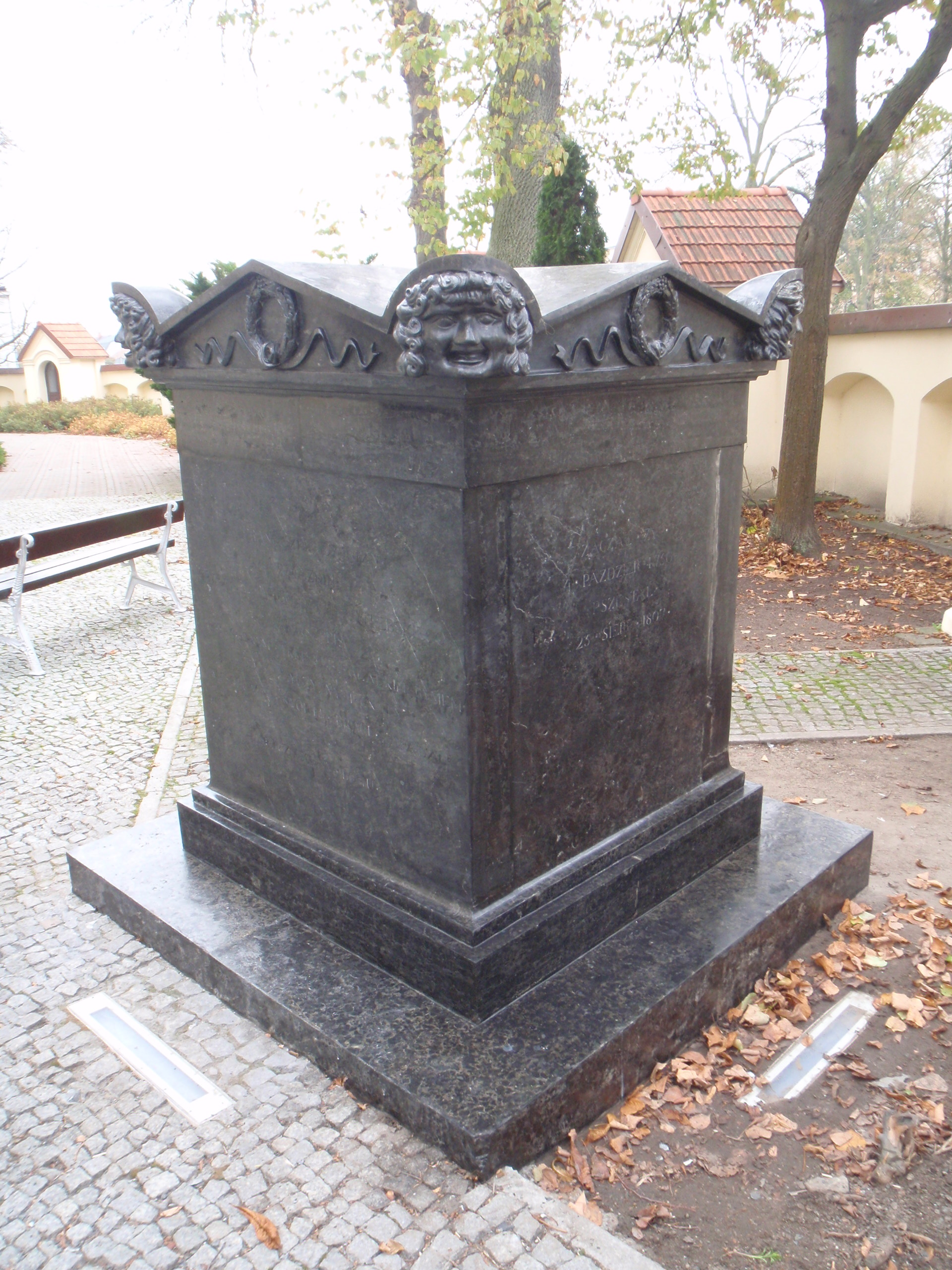 Complex of the church of Invention of the Holy Cross and Saint Andrew in Końskowola